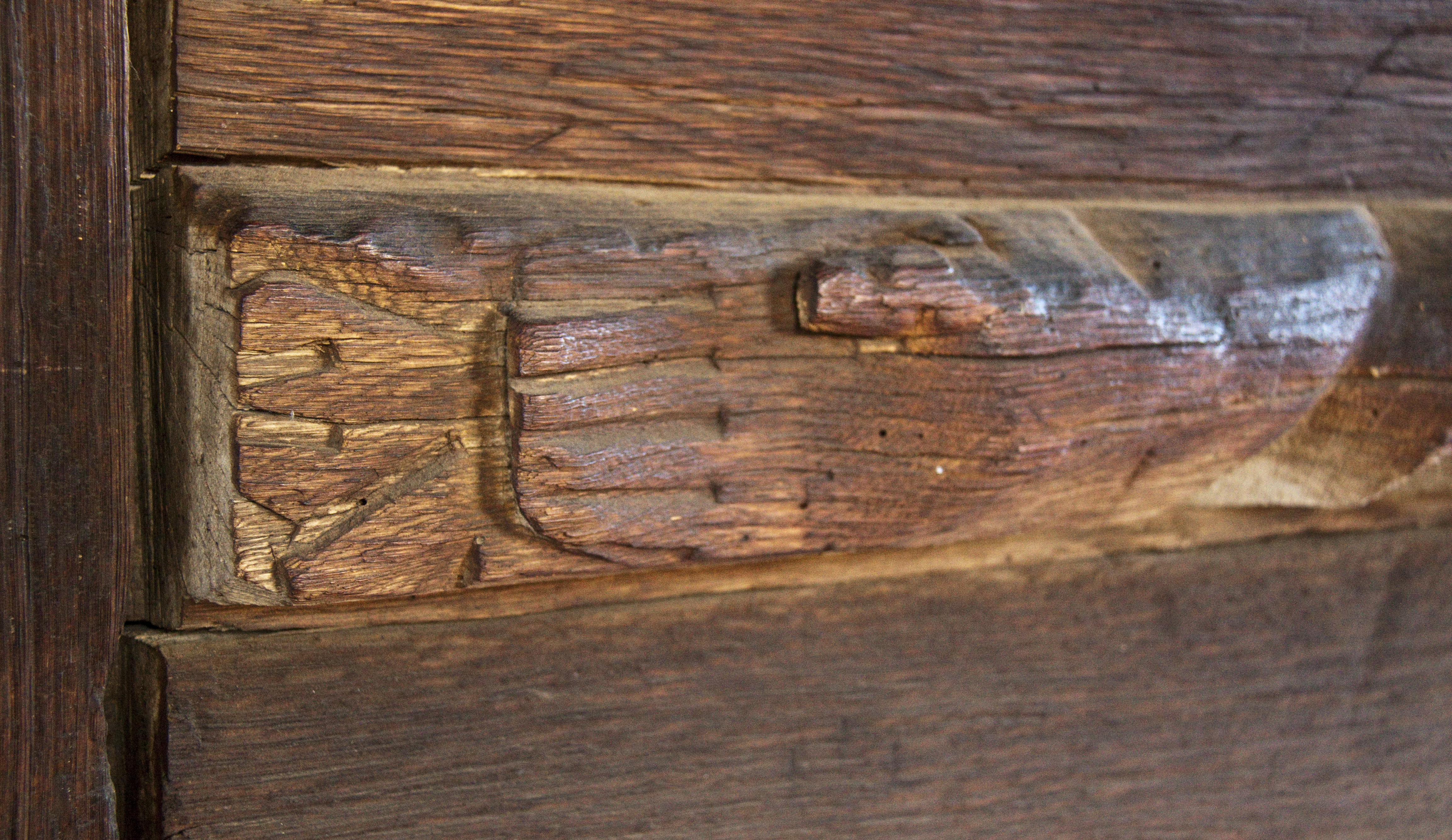 Ştefăneşti-Şcoala, Vâlcea county, Romania: the wooden church.